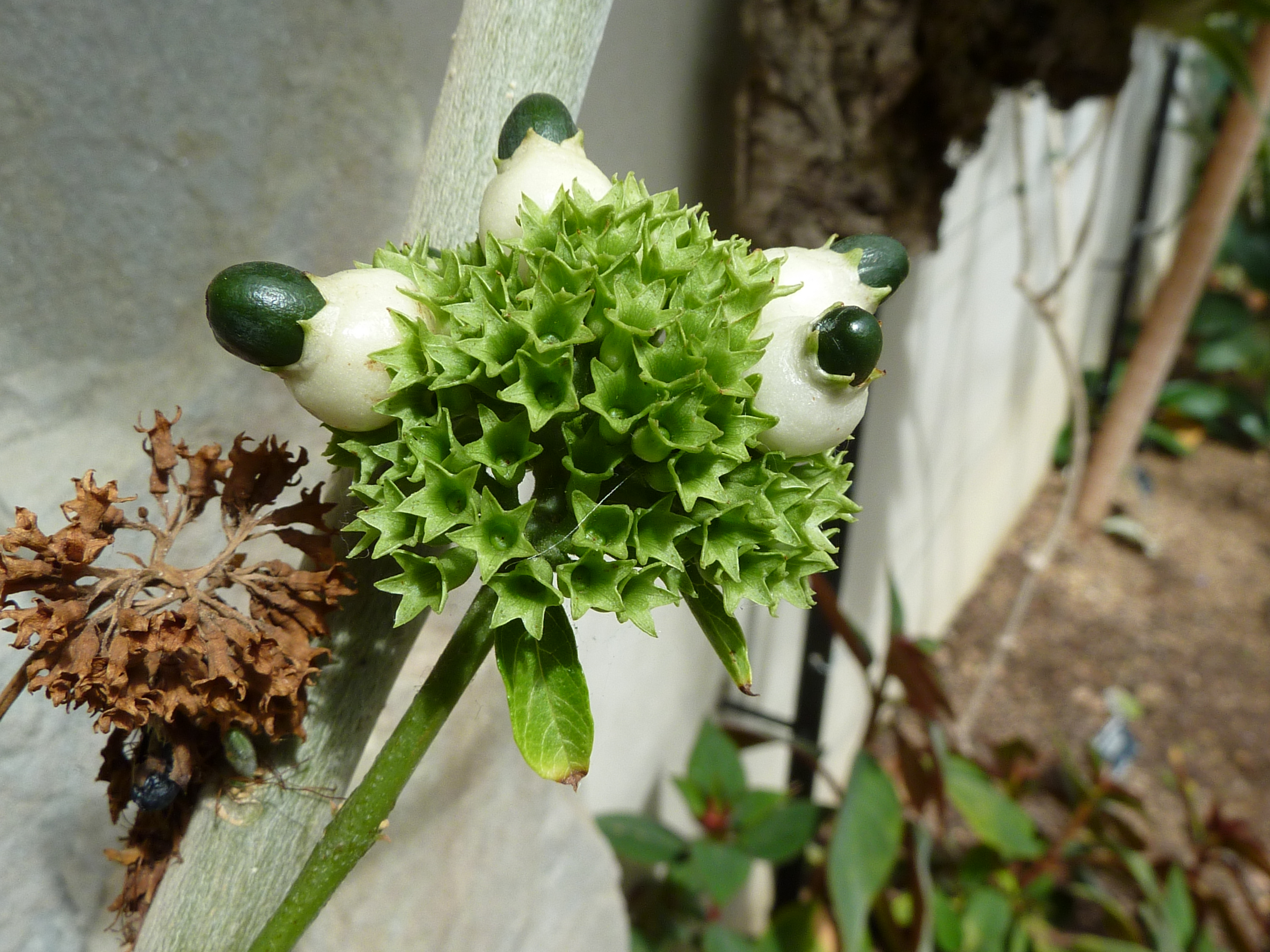 Taken in the Cambridge University Botanic Garden